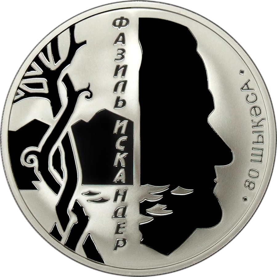 Coin «Fazil Iskander», 10 apsars, 2009, Ag925, reverse